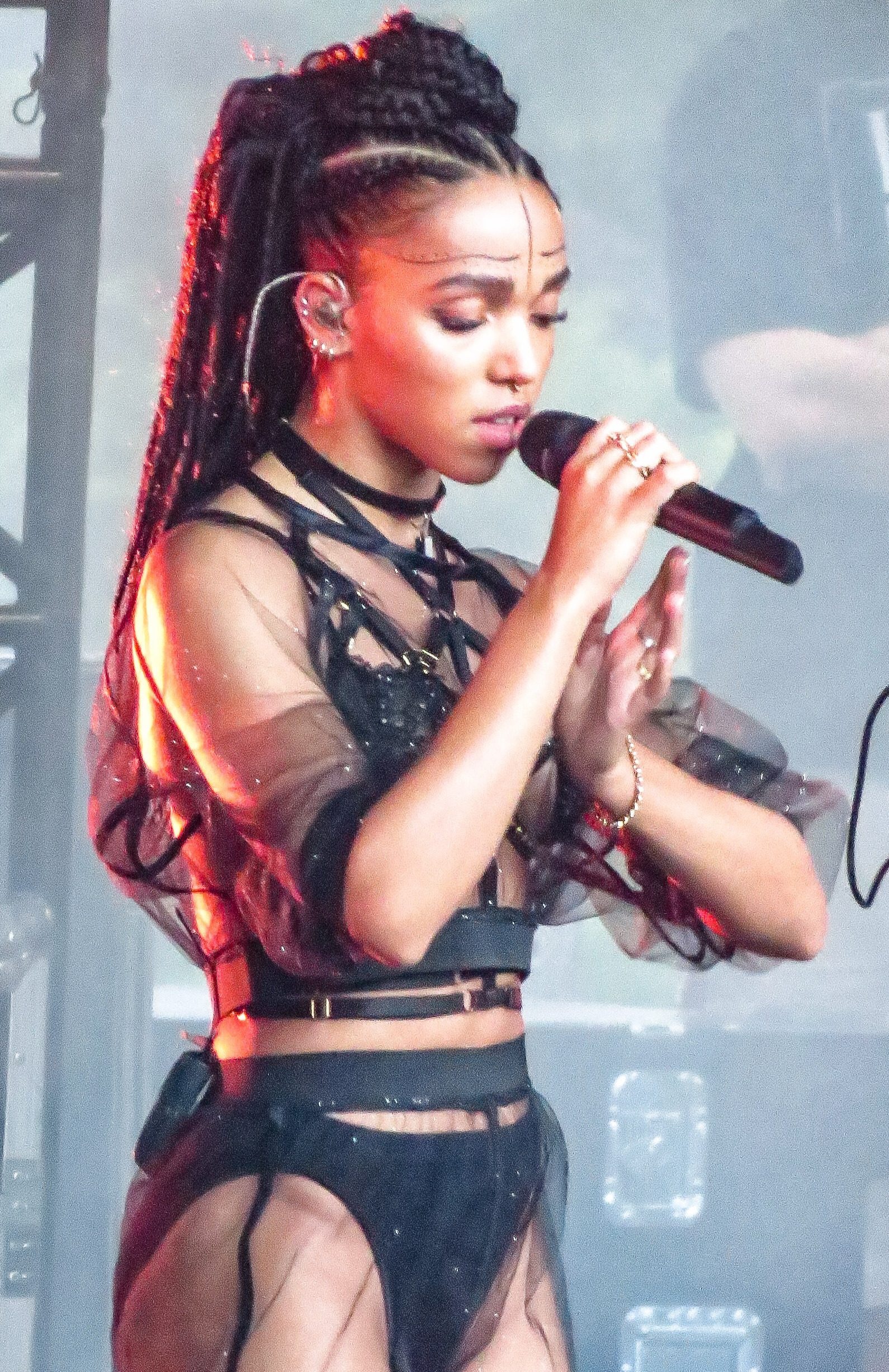 FKA twigs at Laneway Festival, Sydney on 31 January 2015.